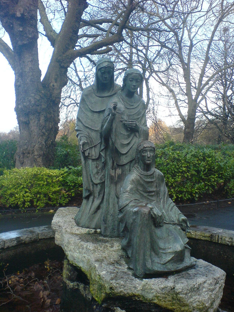 The Three Fates, Leeson Street Gate, Stephen's Green, Dublin, Ireland. a group representing the Three Fates inside the Leeson Street Gate (a gift from the German people in thanks for Irish help to refugees after World War.